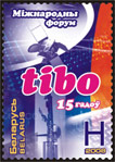 Stamp of Belarus